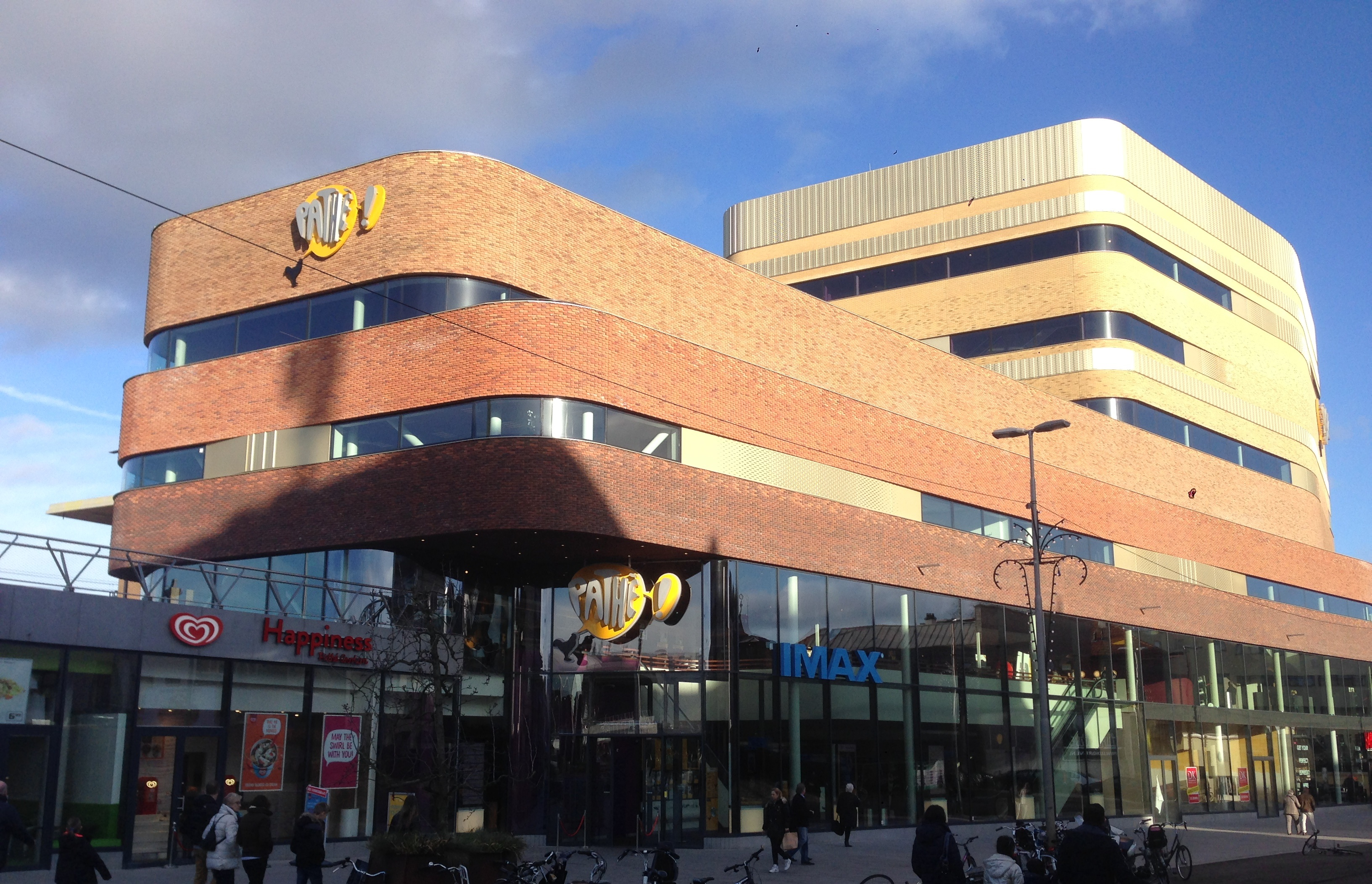 Pathe Arnhem